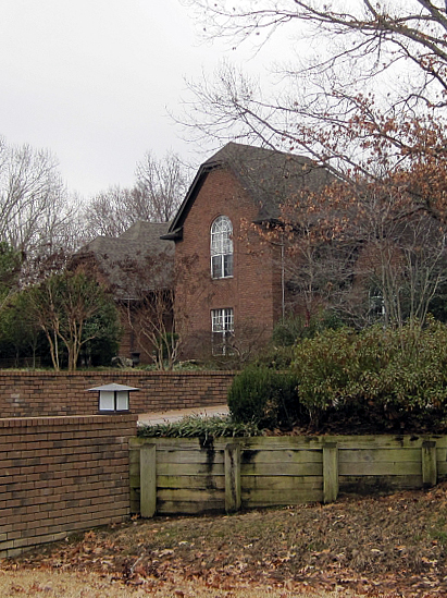 Junstin Timberlake's villa in the Shelby Forest area of Millington, Tennessee.